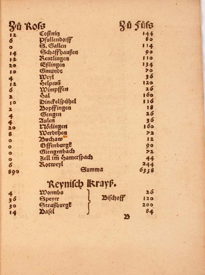 This is a scan of the historical document